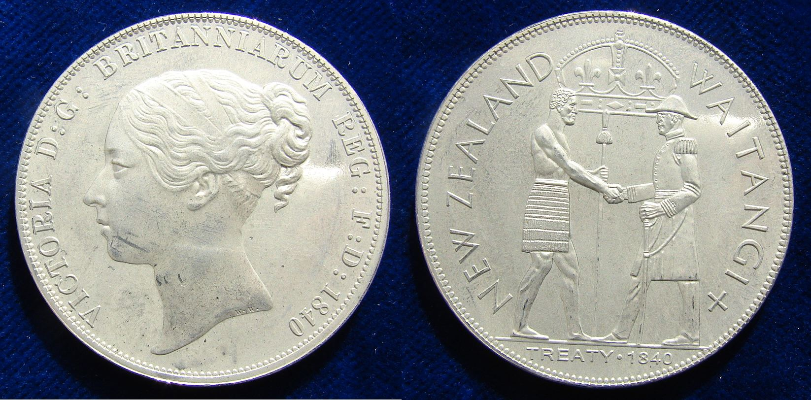 Ex Spink Patina Collection. D. = 38 mm Nickel, plain edge, mintage 18 only. Victoria, 1837- 1901 and Hobson, William, Captain, 1792 Waterford, Ireland - 1842 Auckland, New Zealand and Tamati Waaka Nene, 1780 Hokianga - 1871 Bay of Islands Young Head l. by William Wyon, surrounding : "VICTORIA D: G: BRITANNIARUM REG: F: D: 1840" / Waitangi Treaty design of James Berry: Tamati Waaka Nene shaking hands with Governor Hobson, around: "NEW ZEALAND WAITANGI TREATY 1840". Medallist: Donald R Golder, British Sculptor Condition: EXTREMELY FINE, without any hidden problems.